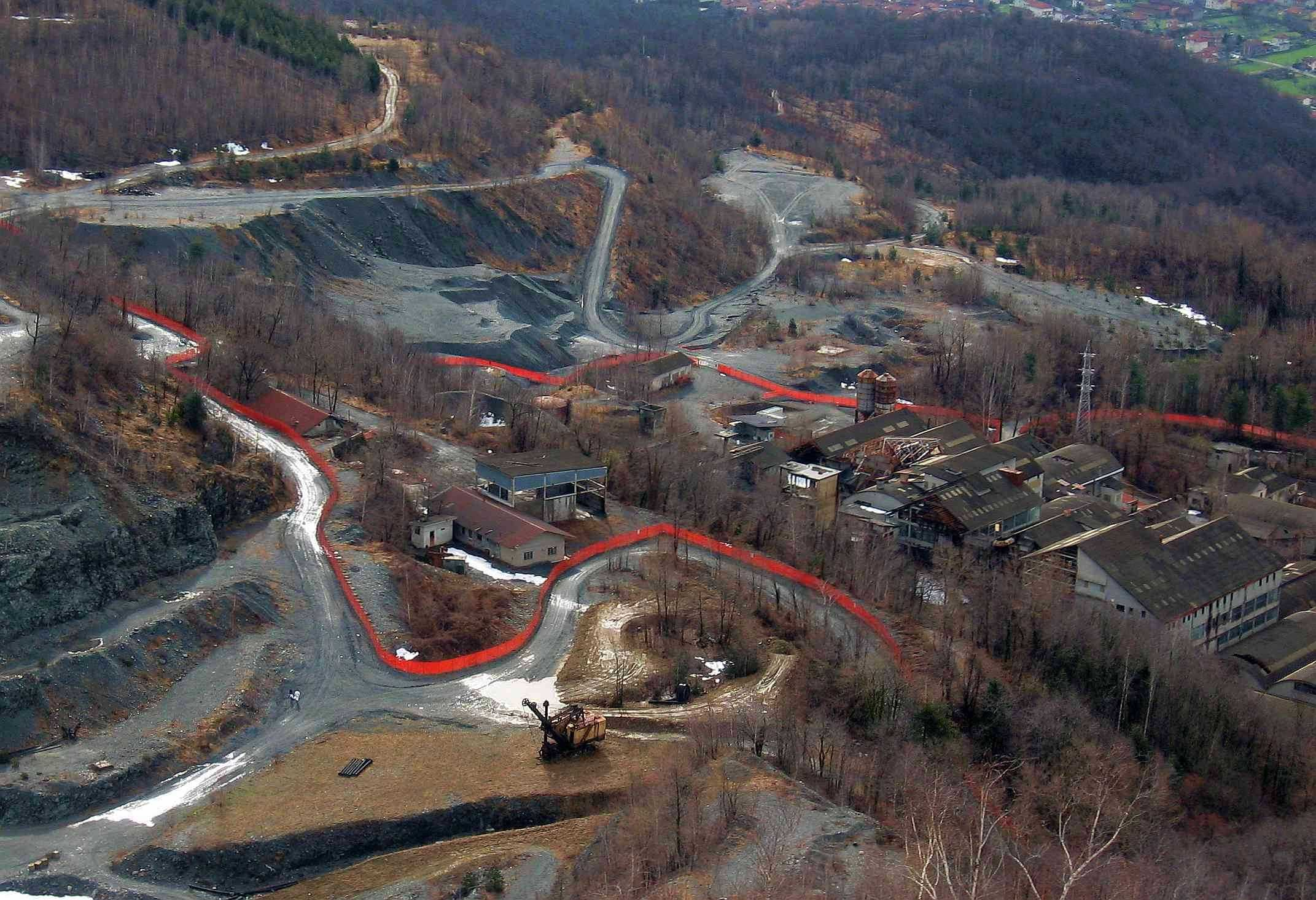 Asbestos quarry of Balangero (TO, Italy): old plants